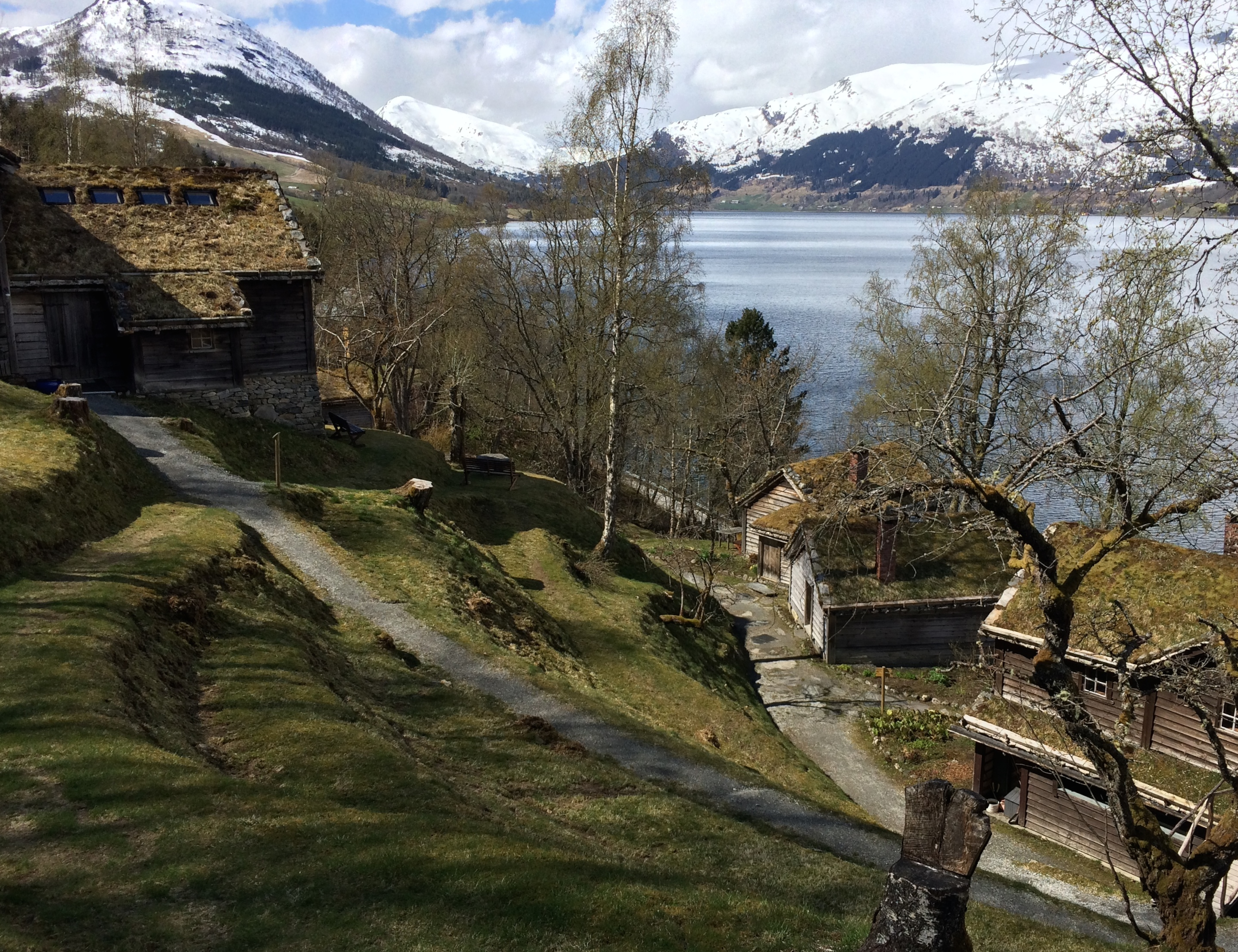 Astruptunet (home of artist Nikolai Astrup) by Jølstravatnet Lake, Jølster Municipality, Sogn og Fjordane, Norway, 6th May 2015